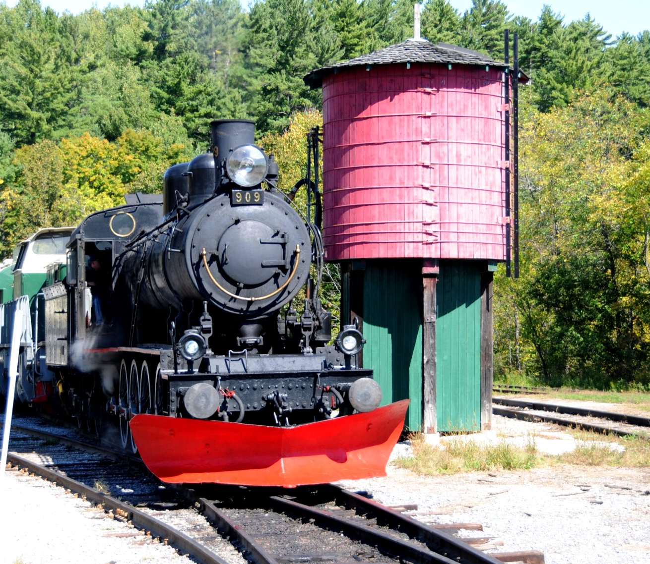 Wakefield Steam Engine in Wakefield Quebec, Canada. The title of this work at its source is: 909 Taking a Break: Wakefield Steam Engine.